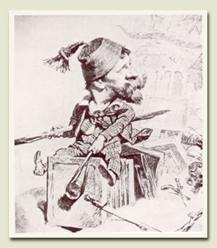 Self-portrait (lithography from picture).